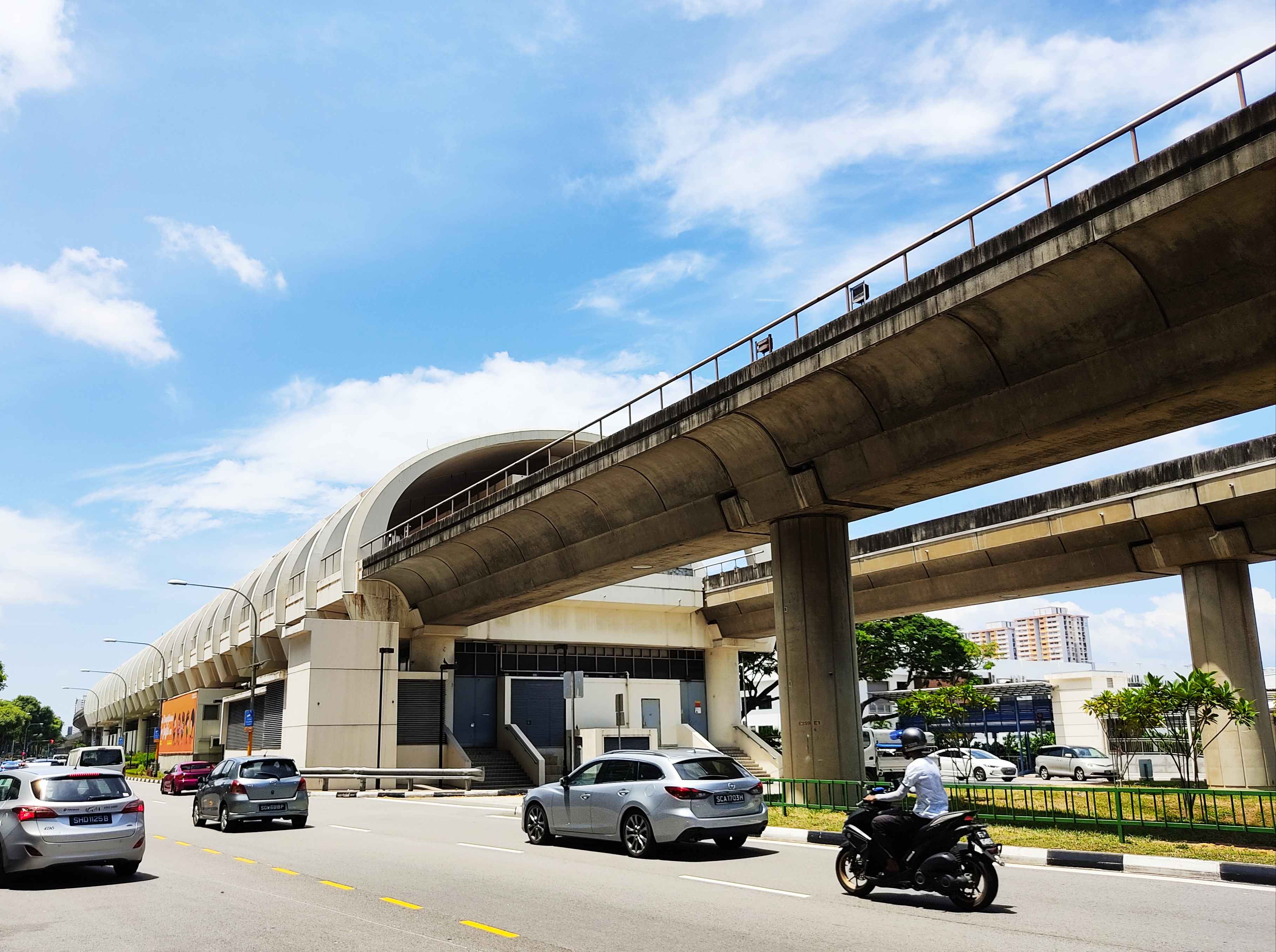 EW5 Bedok Exterior